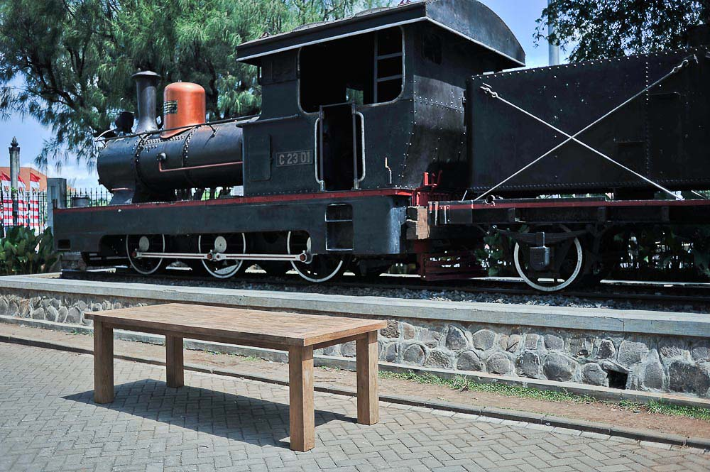 Locomotive and teak table in front of Lawang Sewu building, Semarang, Indonesia